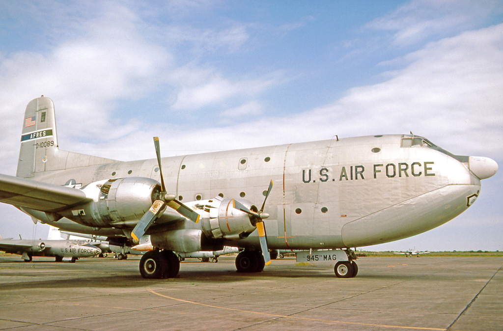 Douglas C-124C Globemaster II 51-089 of 945 MAG at Harlingen Texas in 1975